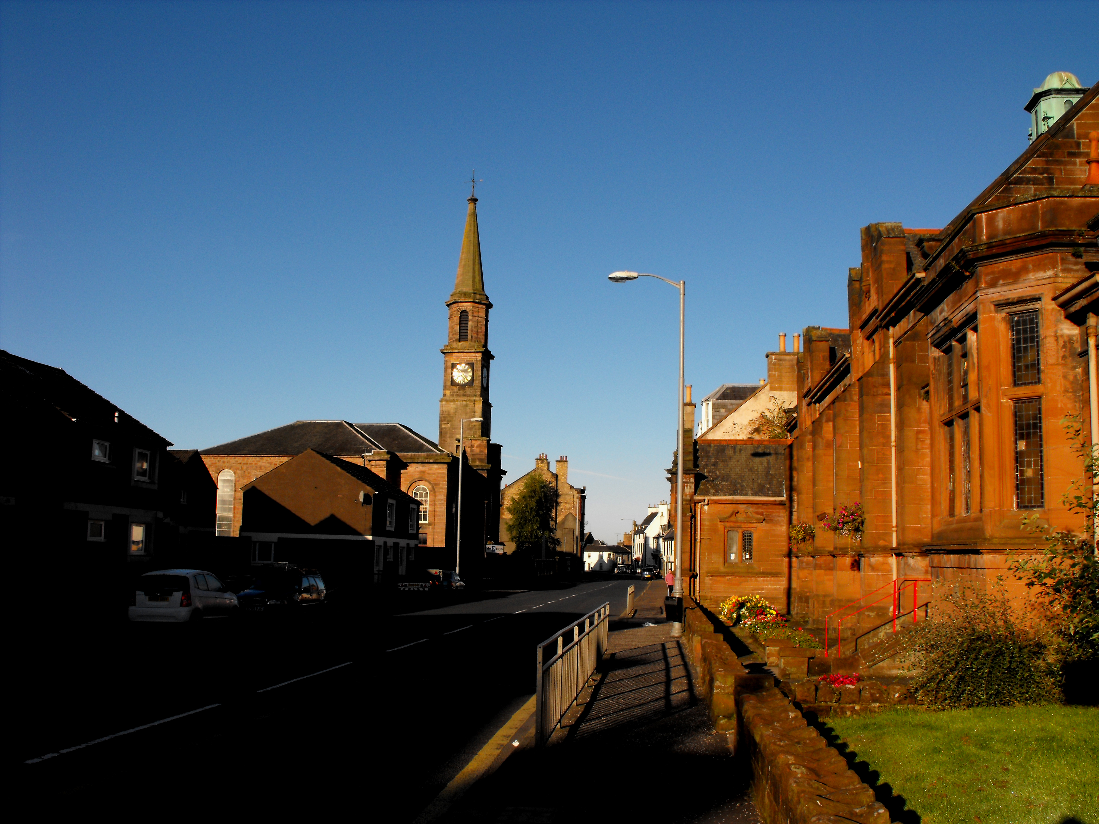 View of Loudoun Church from outside the Morton Hall - Newmilns.